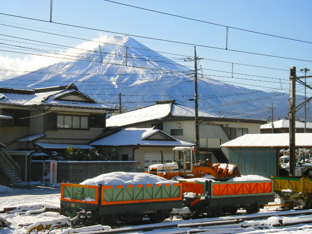 Mt. Fuji from the Shimoyoshida Station. Fujiyoshida, Yamanashi prefecture, Japan. Place - Shimoyoshida, Fujiyoshida, Yamanashi prefecture, Japan. From the platform of the Shimoyoshida Station, toward south.